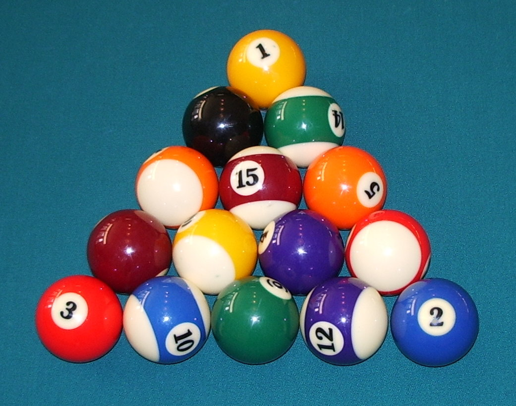 One of many valid racks in the pocket billiards (pool) game of rotation; the 1 ball is at the apex of the rack and is on the foot spot, the 2 is in the corner to the racker's right, the 3 ball is in the left corner, and the 15 is in the center, with all other balls placed randomly, and all balls touching.